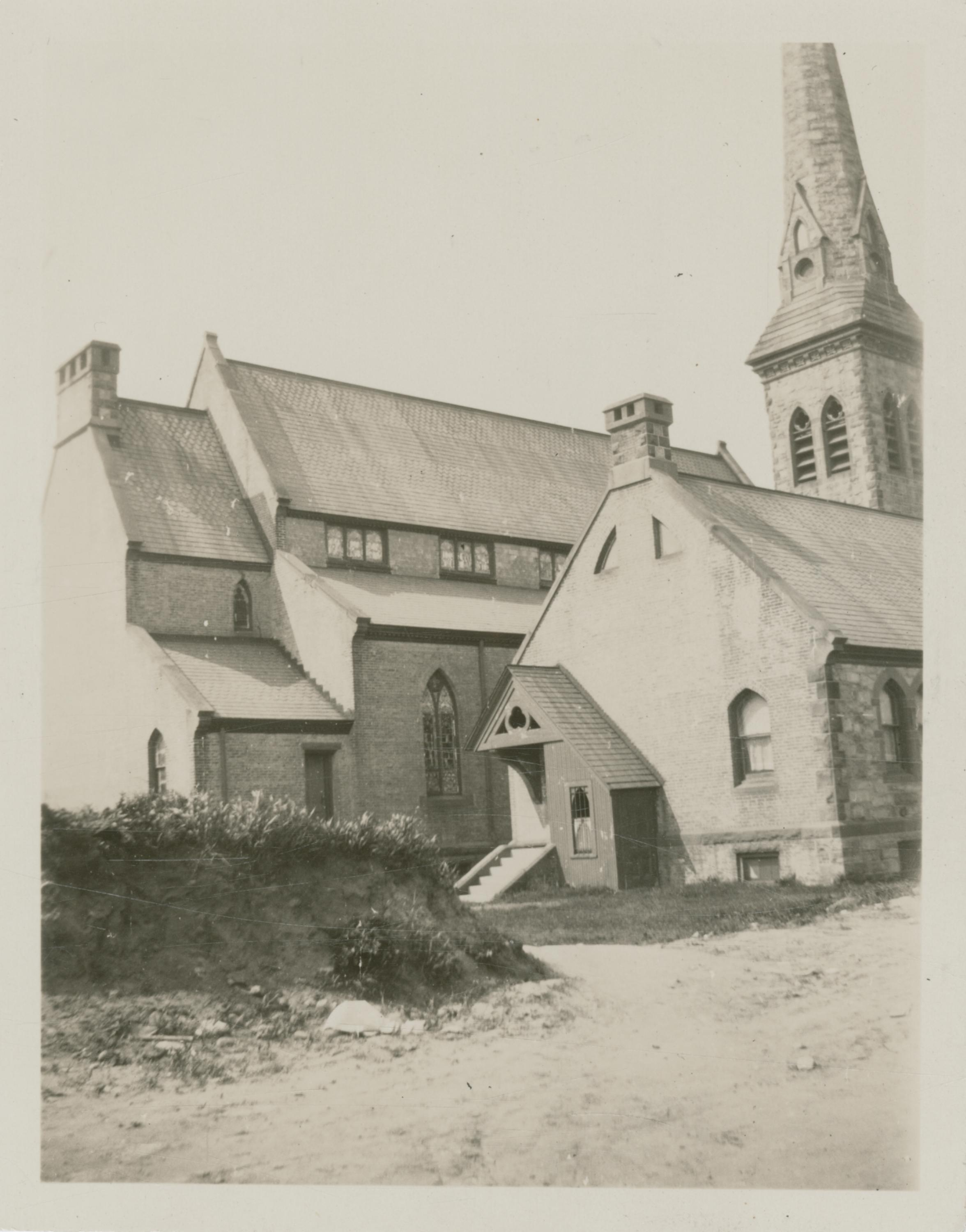 First Presbyterian Church of Newtown. View of the west wall. Built of granite, the cornerstone set July 6, 1893. The church was dedicated May 5, 1895.; hand written on back of print: new Presbyterian Church new same as 10 rear view southside Queens Boulevard east of Grand St. Newtown 1923